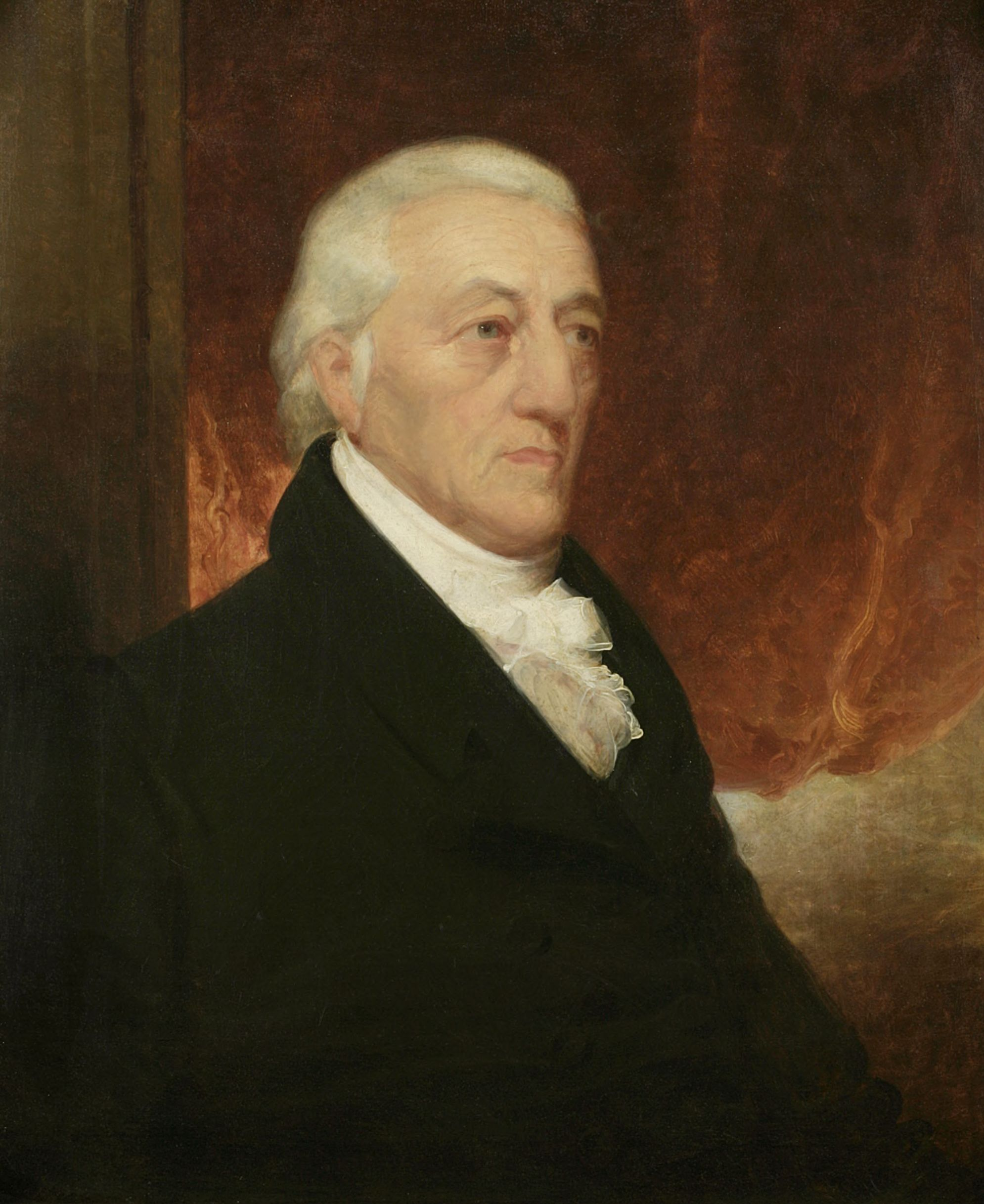 Oil painting of Henry Rutgers by Henry Inman (1801–1846).